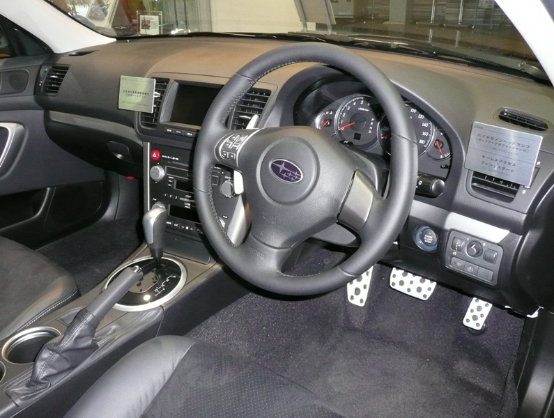 Subaru Legacy touring wagon interior.